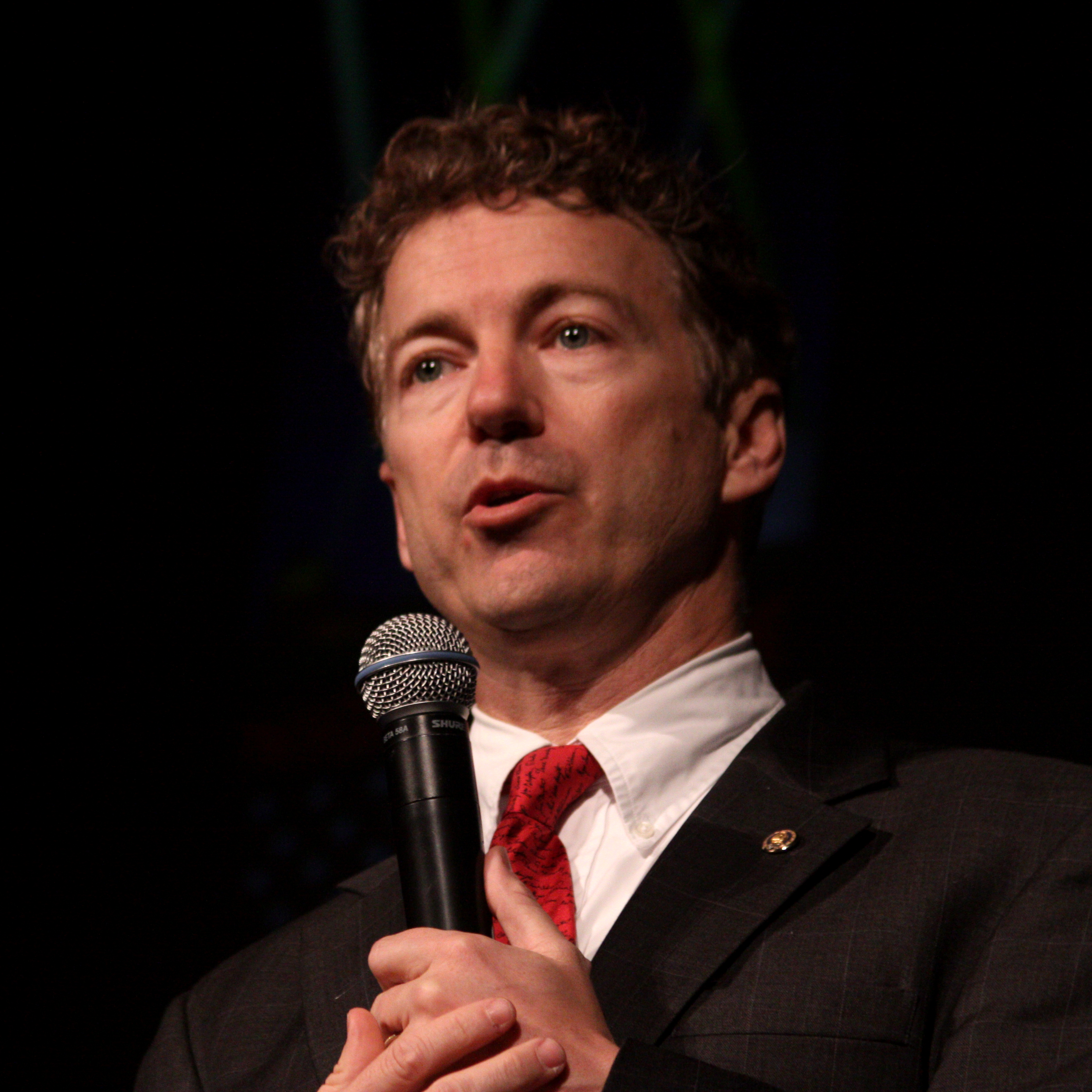 United States Senator Rand Paul speaking at the Night of the Rising Stars in Des Moines, Iowa.